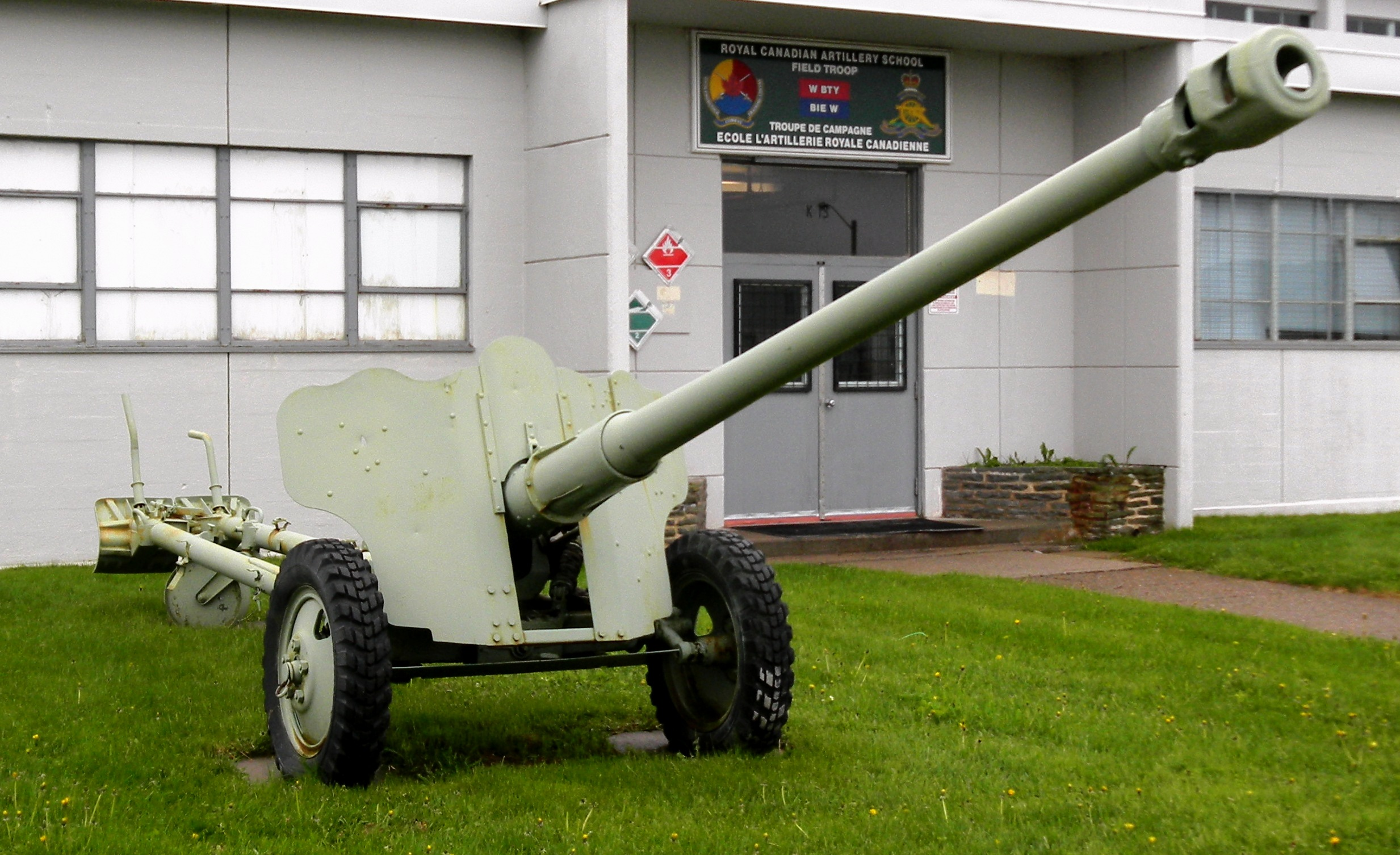 85 mm D-44 Divisional Gun, manufactured in the Soviet Union. This gun is on display at the Royal Regiment of Canadian Artillery School, CFB Gagetown, New Brunswick, Canada.